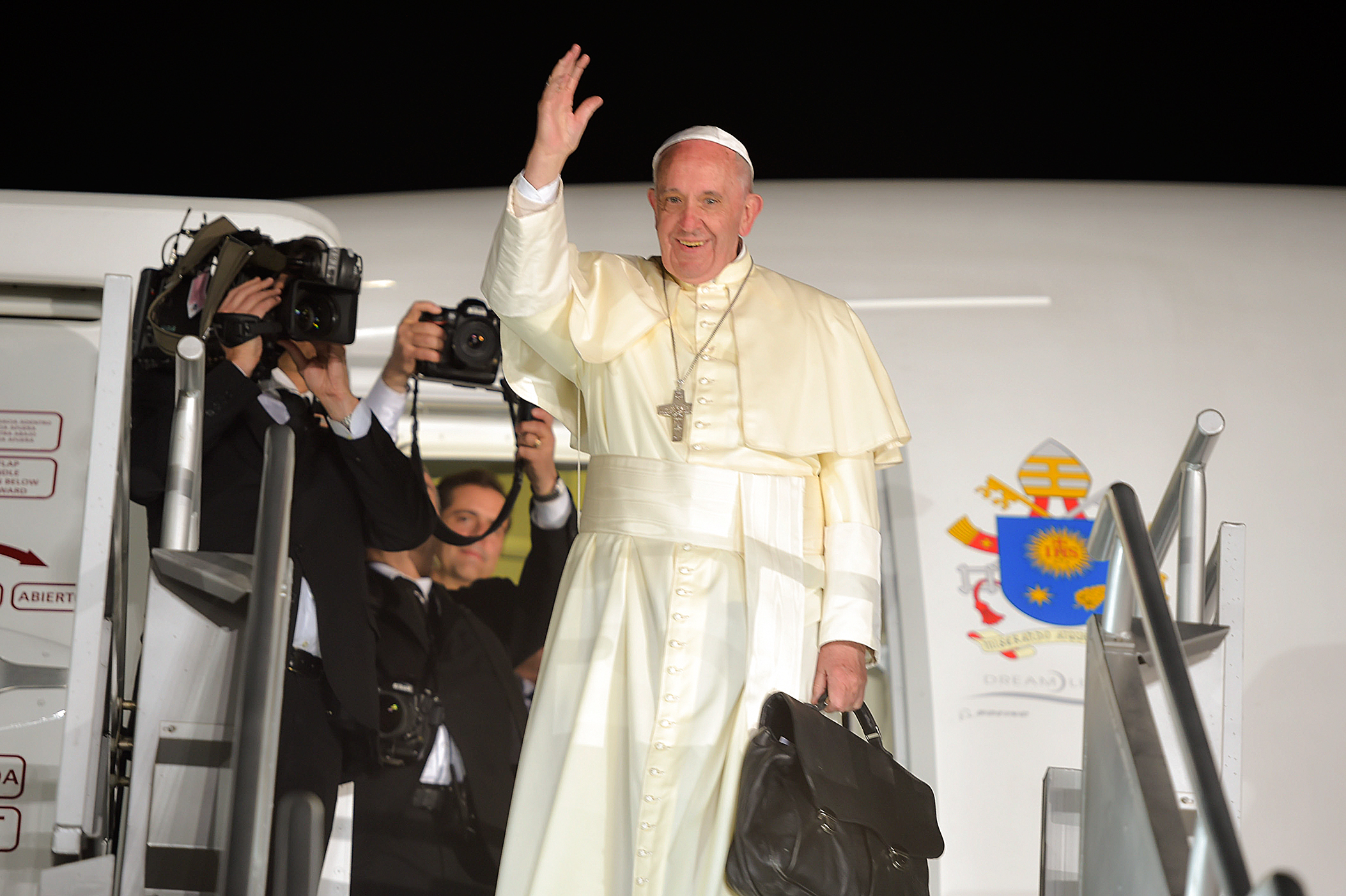 17 de Febrero del 2016